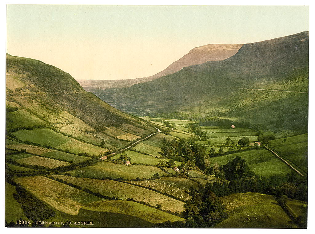 [Glenariff. County Antrim, Ireland] [between ca. 1890 and ca. 1900]. 1 photomechanical print : photochrom, color. Notes: Title from the Detroit Publishing Co., catalogue J--foreign section. Detroit, Mich. : Detroit Photographic Company, 1905.. Print no. "12068". Forms part of: Views of Ireland in the Photochrom print collection. Subjects: Northern Ireland--County Antrim. Format: Photochrom prints--Color--1890-1900. Repository: Library of Congress, Prints and Photographs Division, Washington, D.C. 20540 USA, Part Of: Views of Ireland (DLC) 2001700656 More information about the Photochrom Print Collection is available at Persistent URL: Call Number: LOT 13406, no. 003 [item] This image is available from the United States Library of Congress's Prints and Photographs division under the digital ID missing.This tag does not indicate the copyright status of the attached work. A normal copyright tag is still required. See Commons:Licensing for more information.